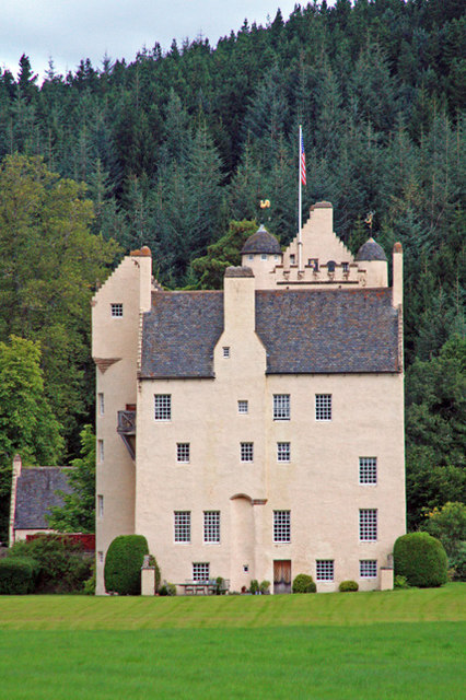 Aboyne Castle, Aberdeenshire